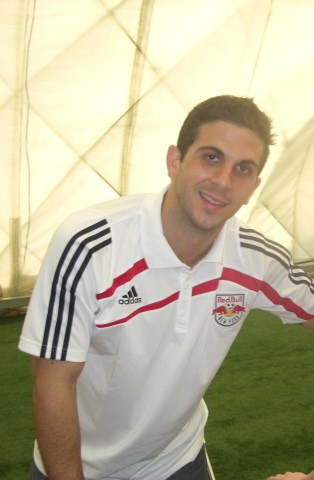 Carlos Mendes RedBullNY